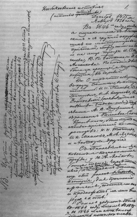 1875 autograph of Ivan Goncharov's Uncommon Story